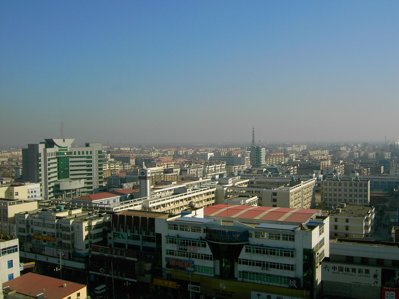 The Old Town of Gan-Yu